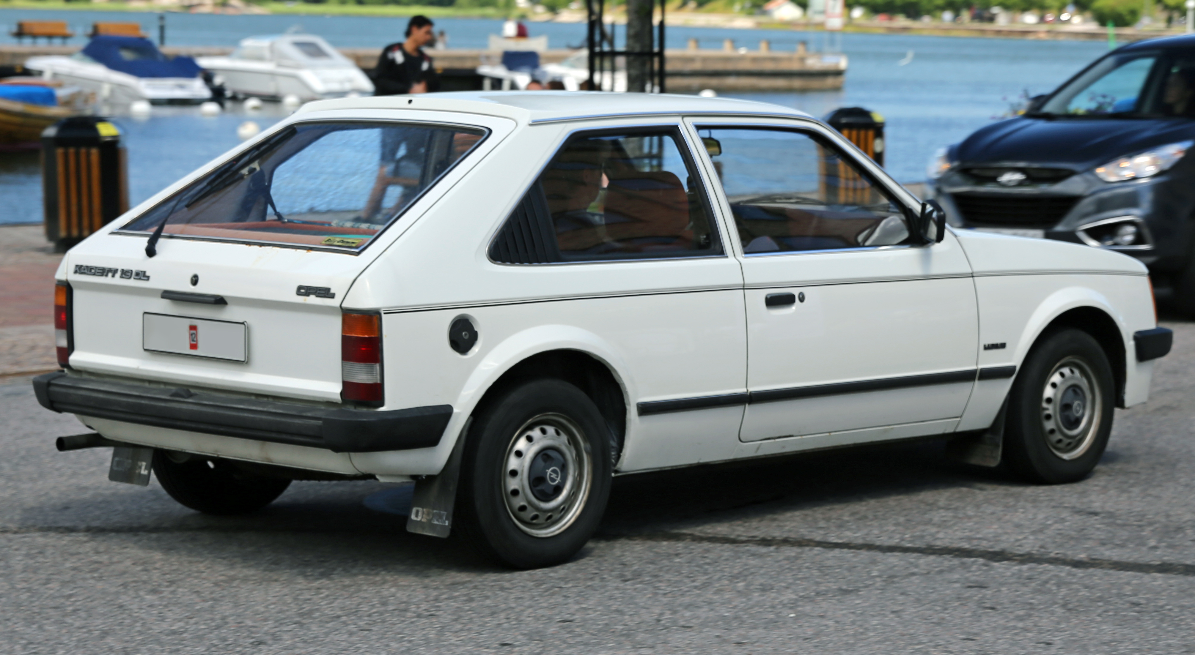 1983 Opel Kadett 1.3 DL Luxus 3-door. Model code 043294, I think that the "29" portion refers to the Sweden/Switzerland-specific 68PS version of the 1.3 OHC engine. "43" means three-door body and Luxus equipment, the last 4 is a bit of a mystery.